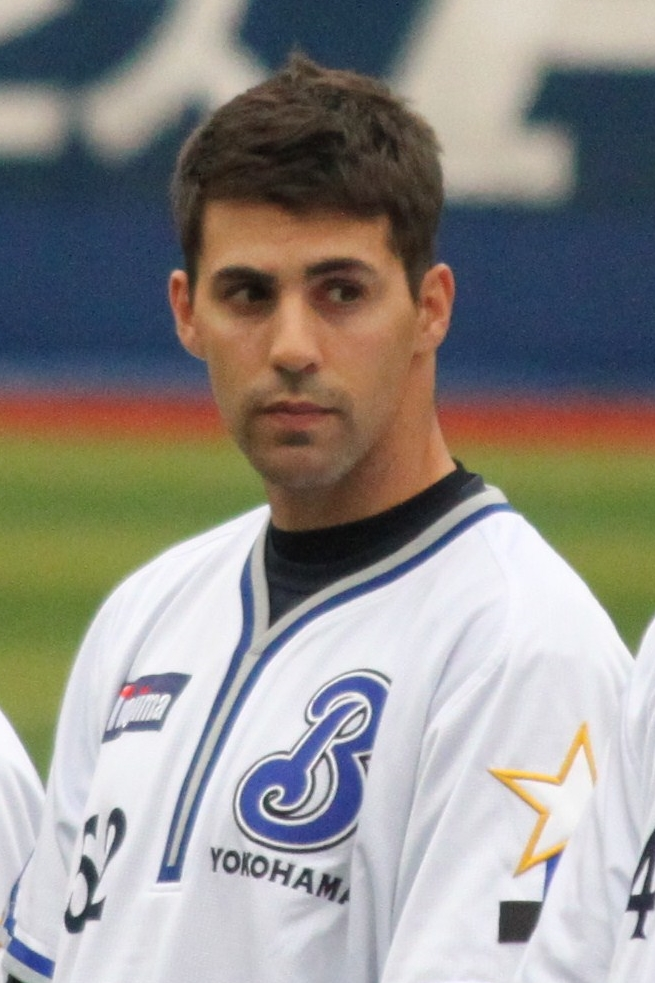 Brandon Mann, pitcher of the Yokohama BayStars, at Yokohama Stadium.